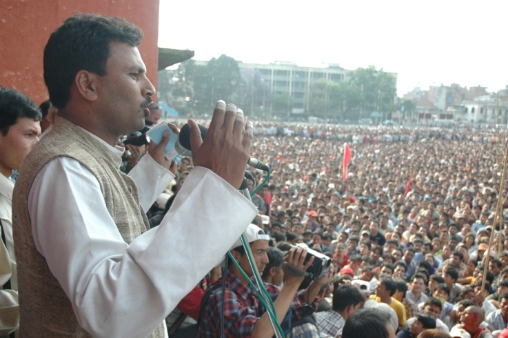 Addresing the crowd at khulla manch